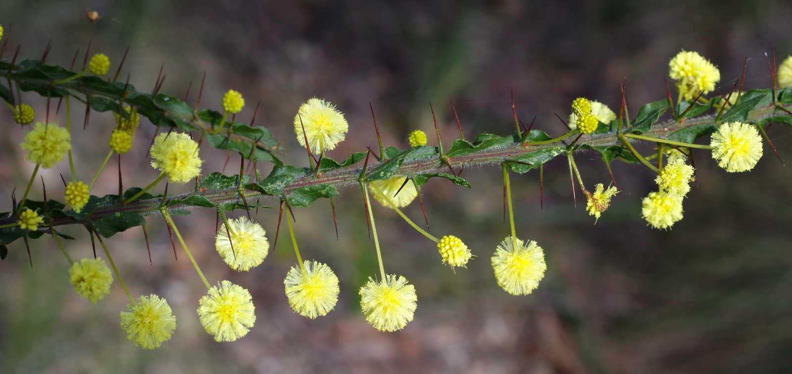 Acacia paradoxa (Hedge Wattle) Shrub or small spreading tree 2 - 4 m high Flowers Aug - Nov